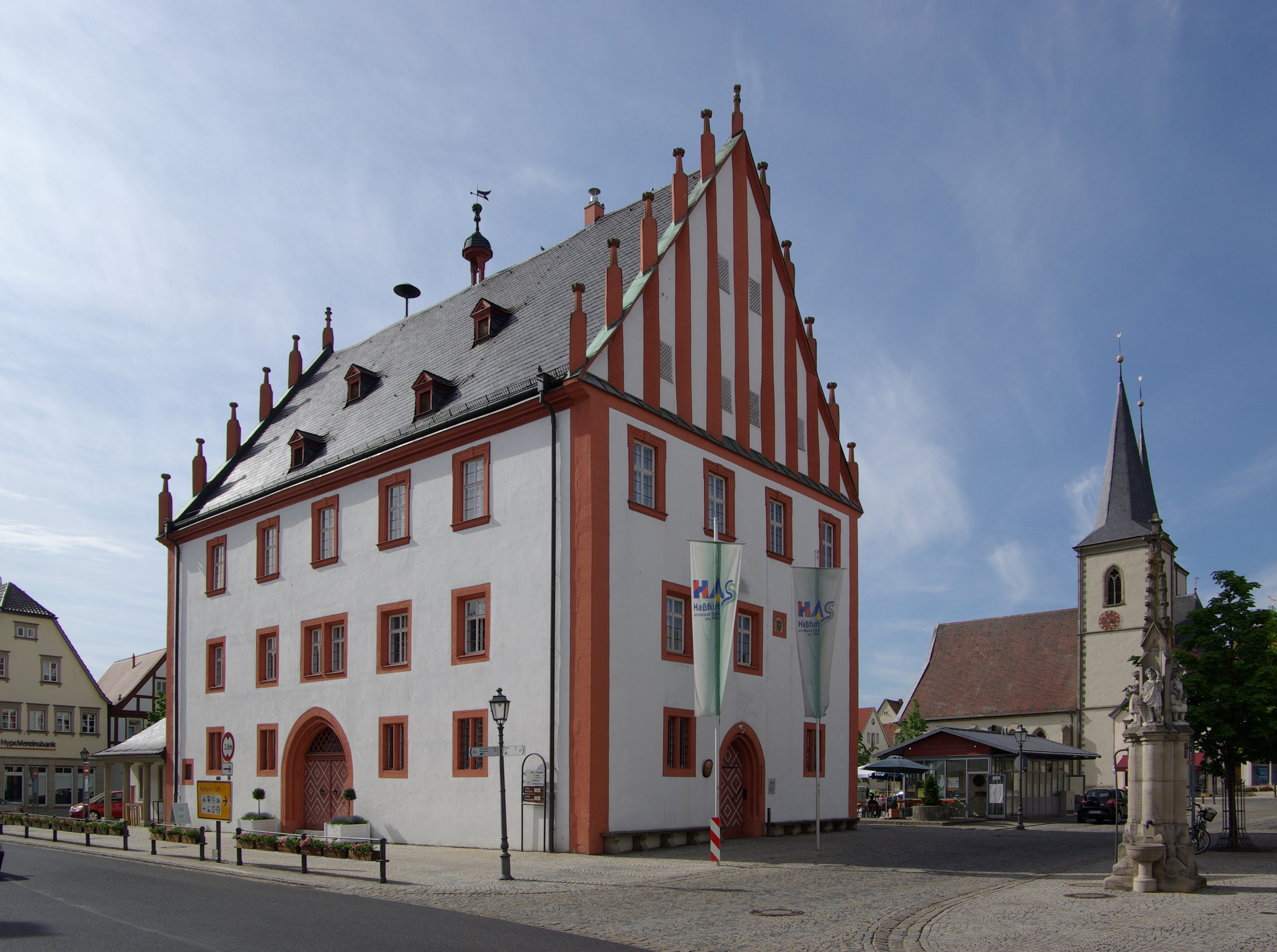 Germany, Haßfurt, former town hall and church